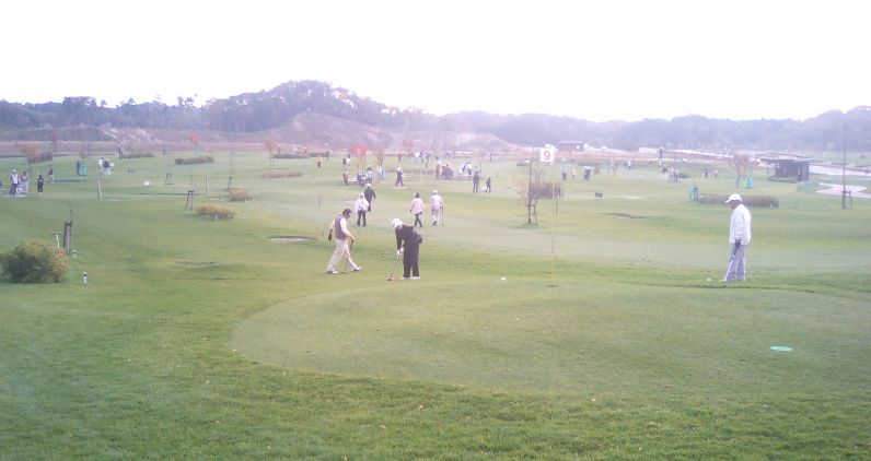 I took this picture with my phone (Miyagi, Japan, 2006)